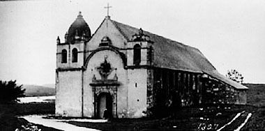 San Carlos Borromeo de Carmelo circa 1910. Photograph by William Amos Haines.